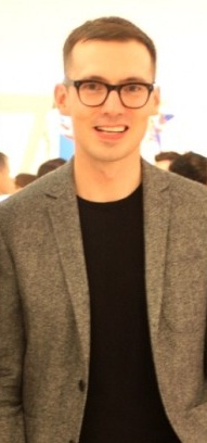 Erdem Moralioğlu, more commonly known as Erdem, is a Canadian born British-Turkish fashion designer.